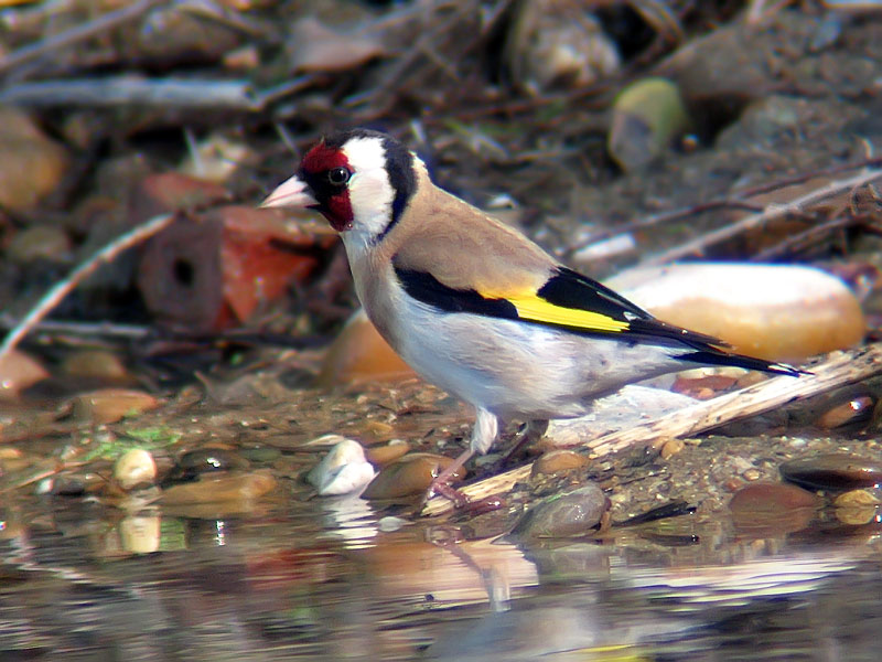 Spanish goldfinch male looking for water (Carduelis carduelis parva). Place: Sevilla Creator: Fernando Zamora. Date: 15 de enero de 2008 (15-01-2008)